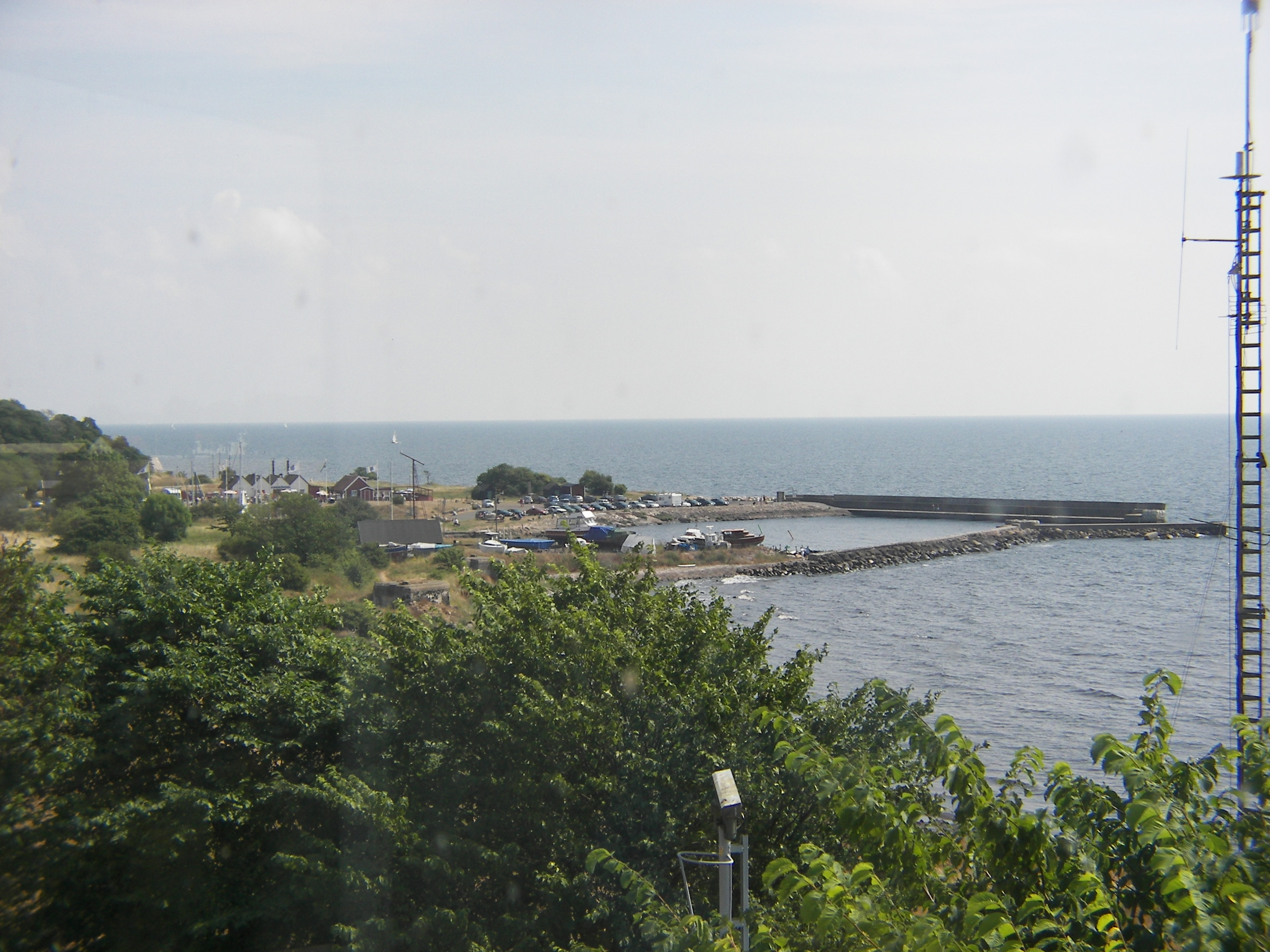 Smygehuk, Sweden - the harbour